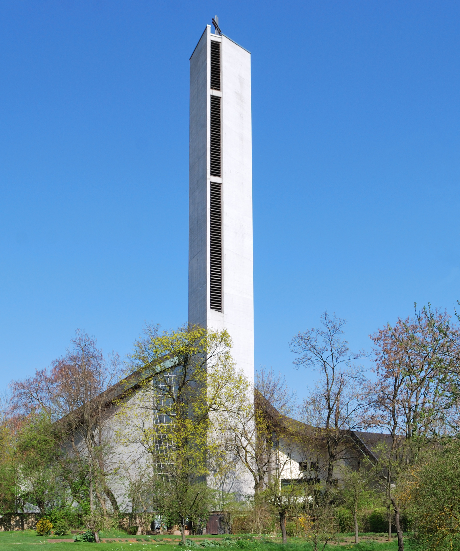 St. Maria, catholic church of Ditzingen in Germany.